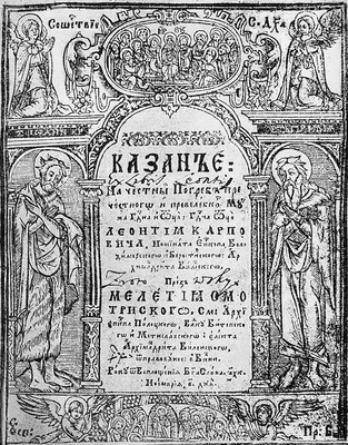 Front page of Smotrytsky's book. Vilnius, 1620.